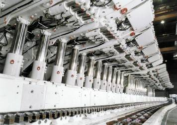 Hydraulic chocks for longwall mining